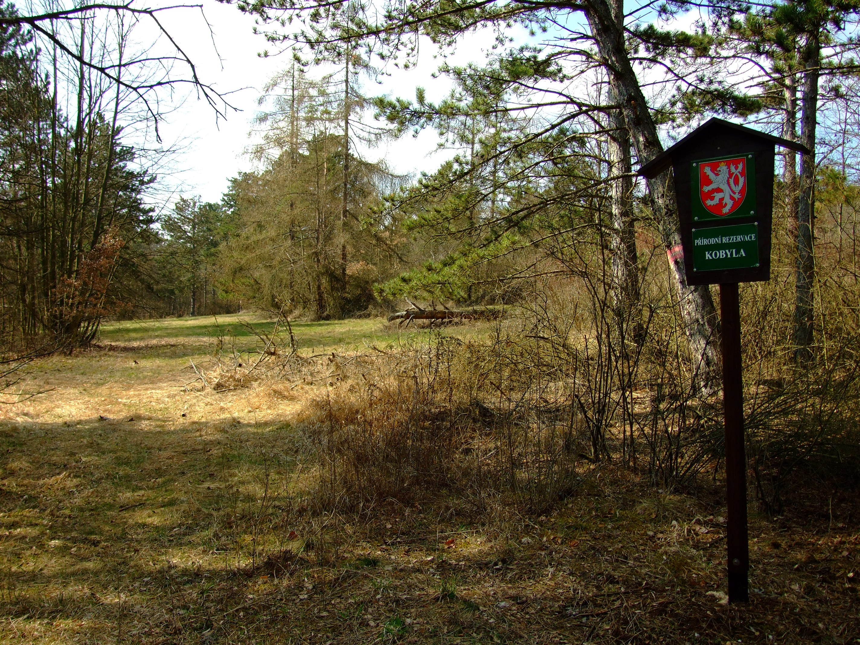 Český kras protected landspace area near the village of Tobolka and surrounding area in Central Bohemian region, CZhelp